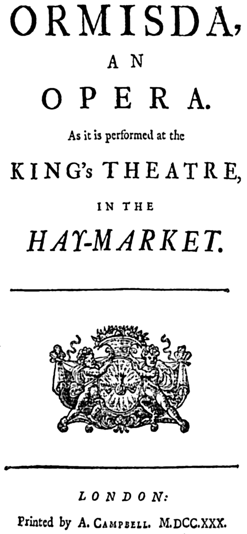 Georg Friedrich Händel - Ormisda - title page of the libretto - London 1730